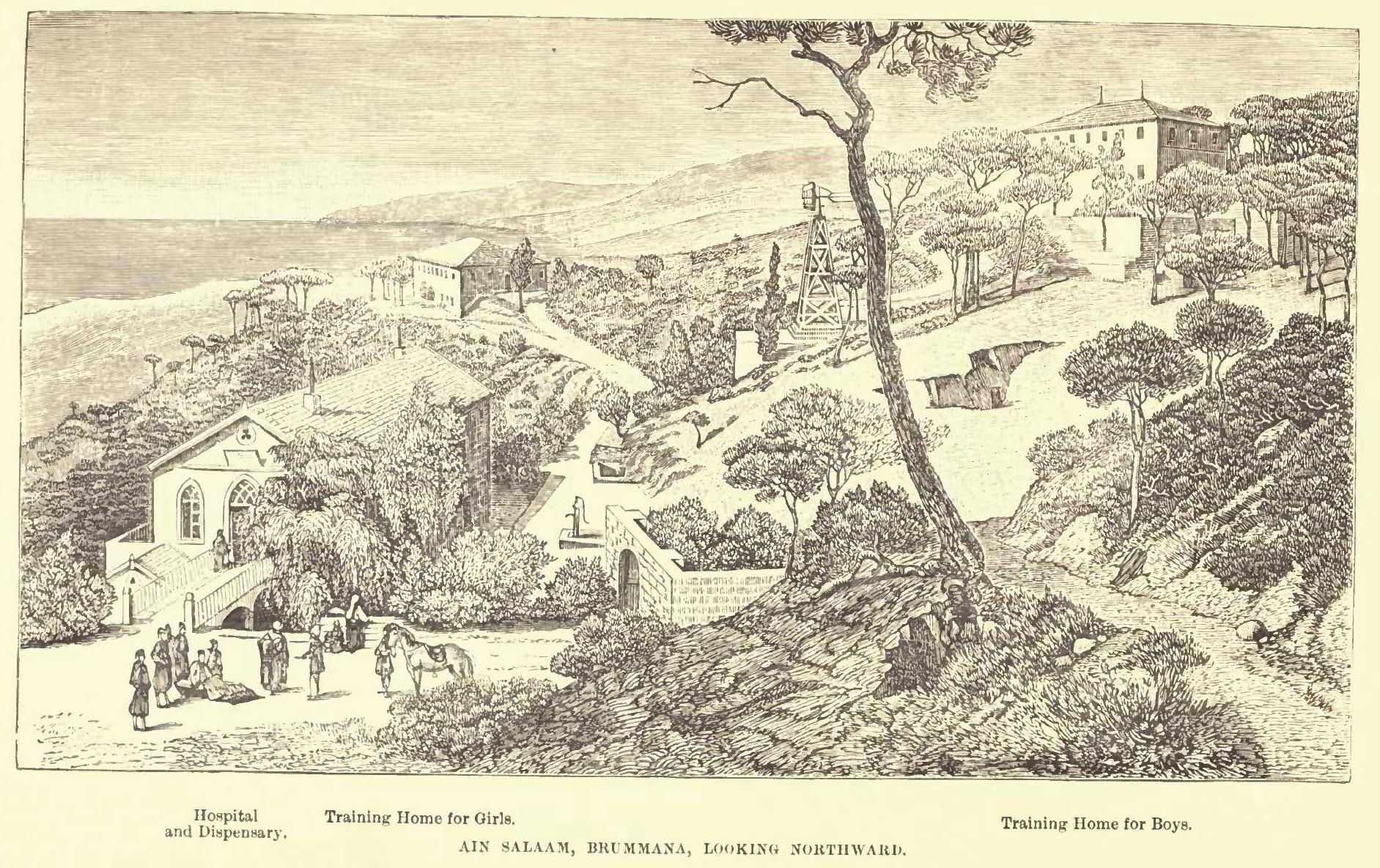 Ain Salaamm, Brummana in Lebanon : Friends' Mission with school and hospital